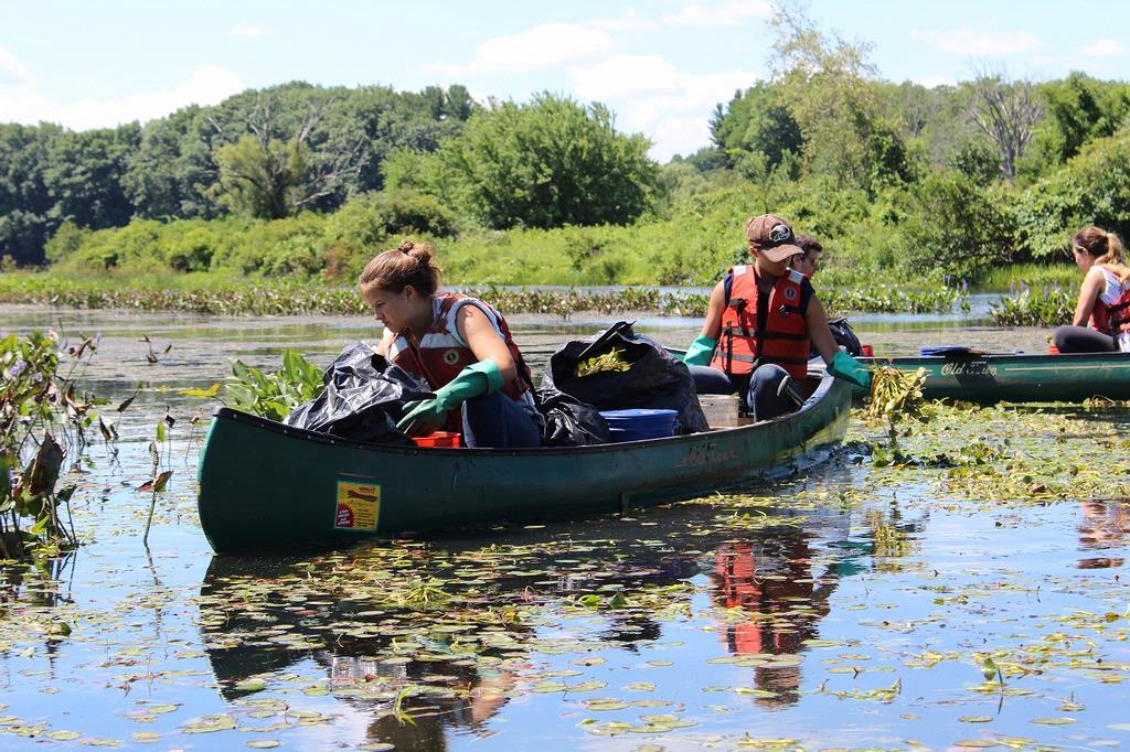 Volunteers in canoes pull up water chestnut plants from Log Pond Cove in Holyoke, Massachusetts.